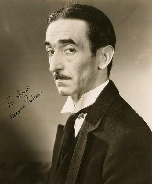 American actor Osgood Perkins in Secret of the Chateau (1934) - publicity still (cropped)